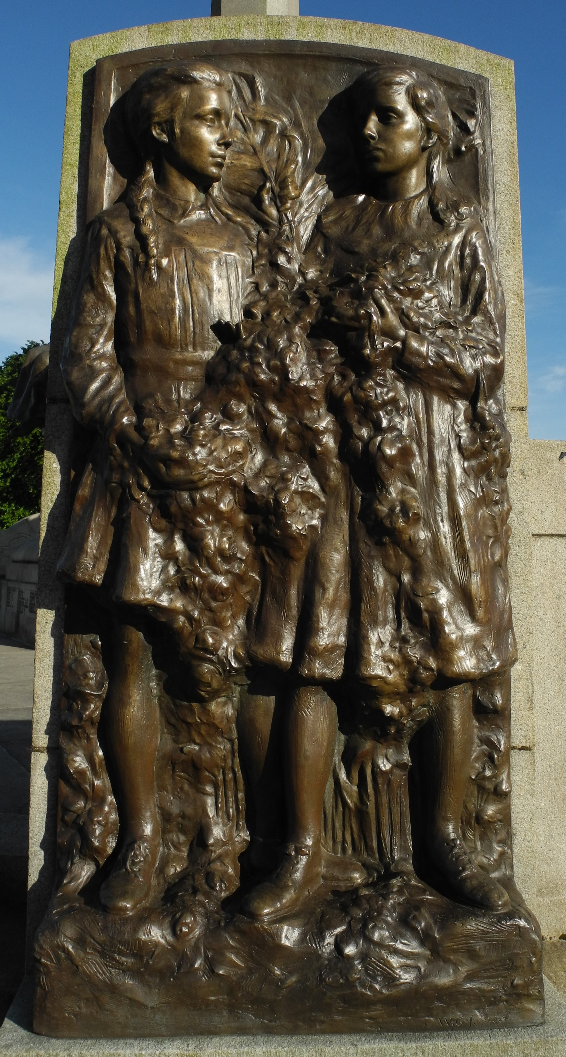 Memorial designed by Goscombe John, completed 1921. Bronze sculptures and panels around stone plinth with names of the fallen inscribed. Grade I listed building from 2014. Image taken after cleaning and repairs in 2010 and 2015.